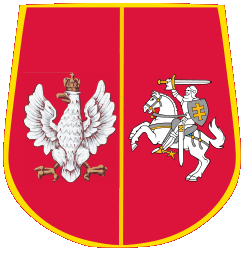 Coat of arms of Central Lithuania.